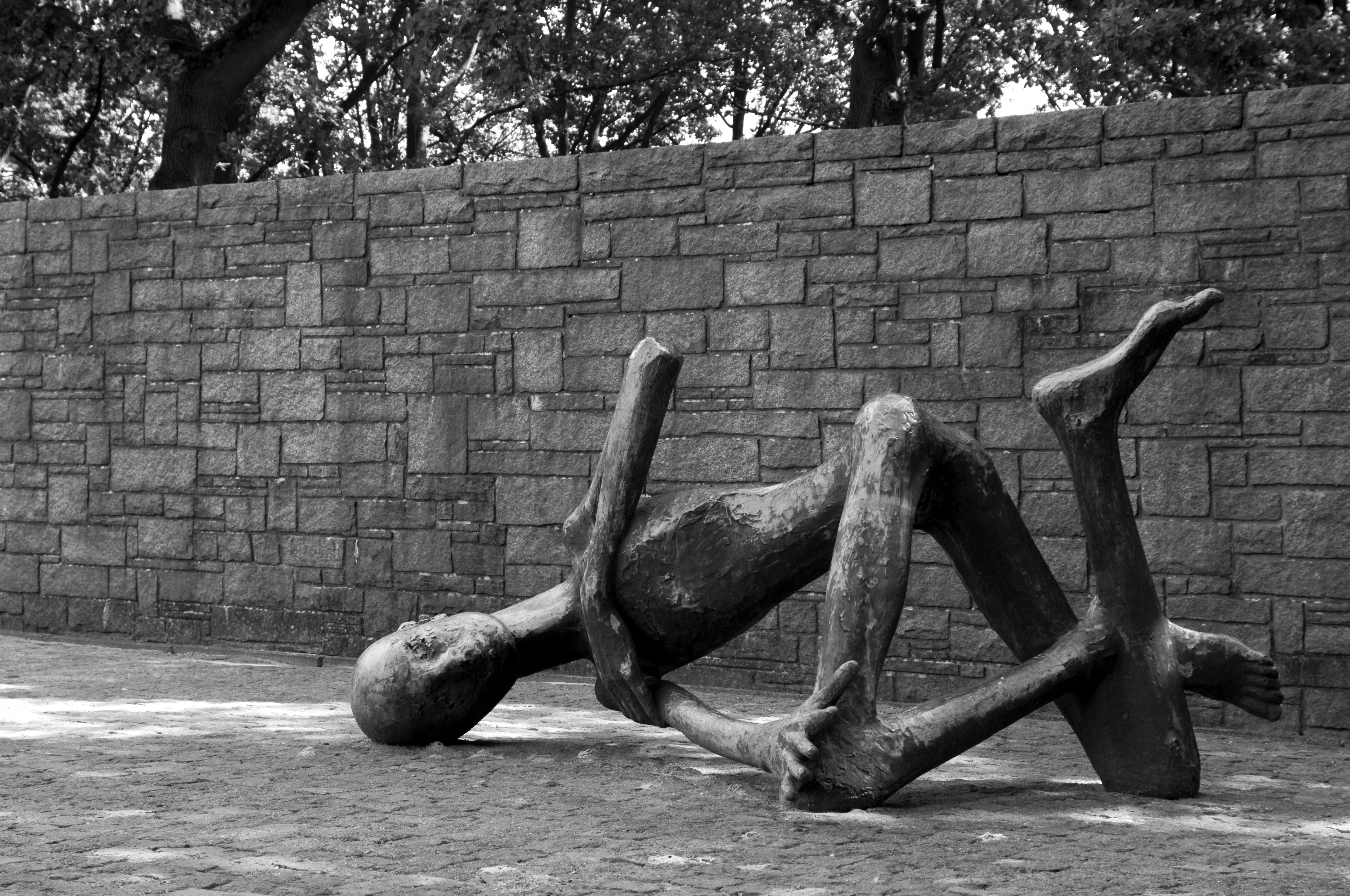 The sculpture entitled “The Dying Prisoner” by Françoise Salmon (born 1920) at the Neuengamme concentration camp. The sculpture is part of the international memorial that was handed over to the public in 1965. It was donated by the organization Amicale Internationale de Neuengamme.